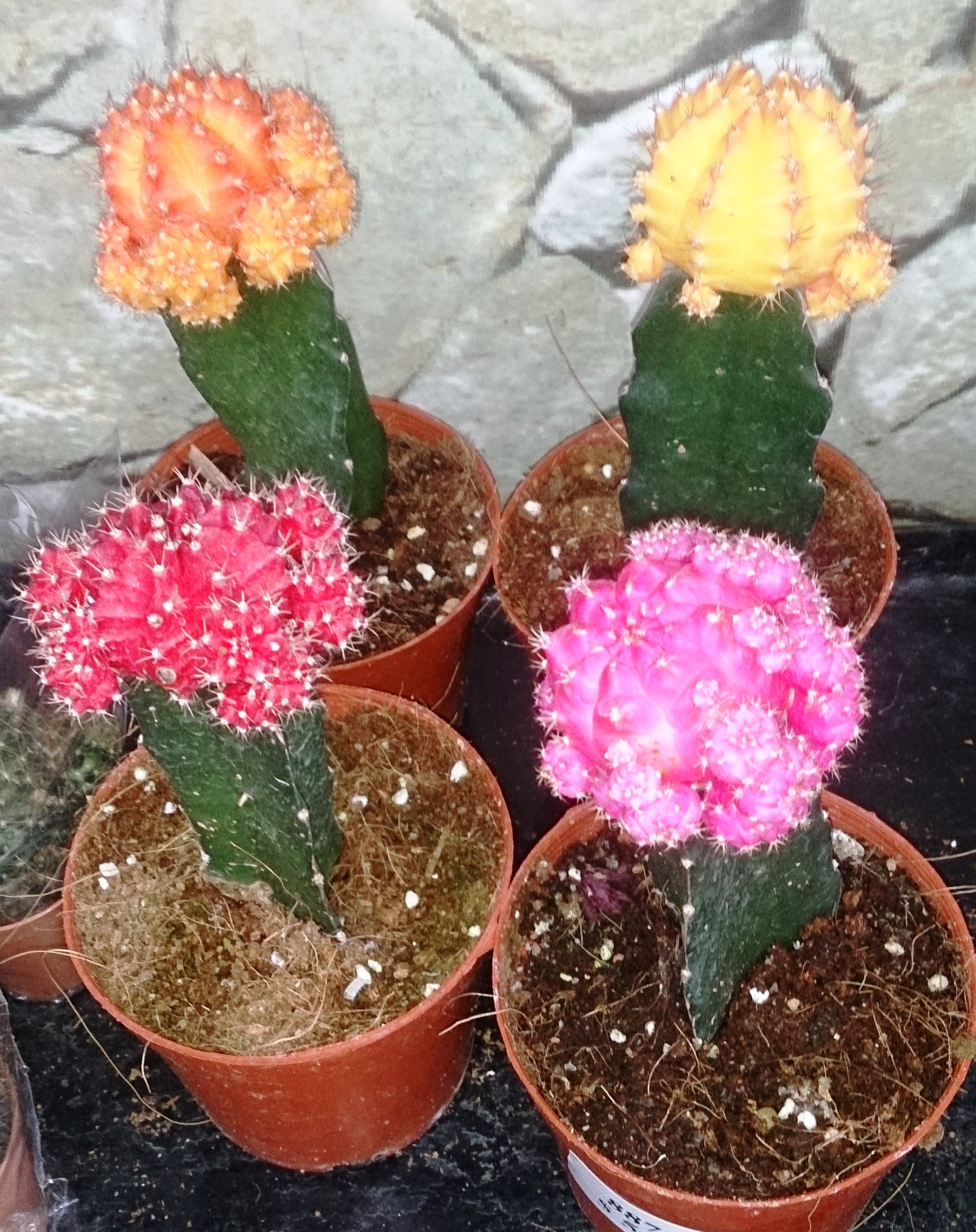 grafted cactus